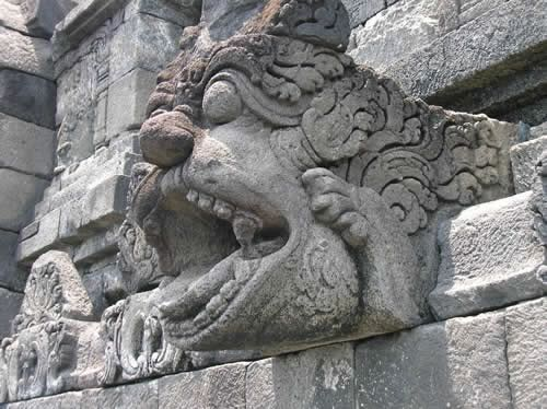 A decorative gargoyle (makaras) at Borobudur as a spout to drainage waterfalls.